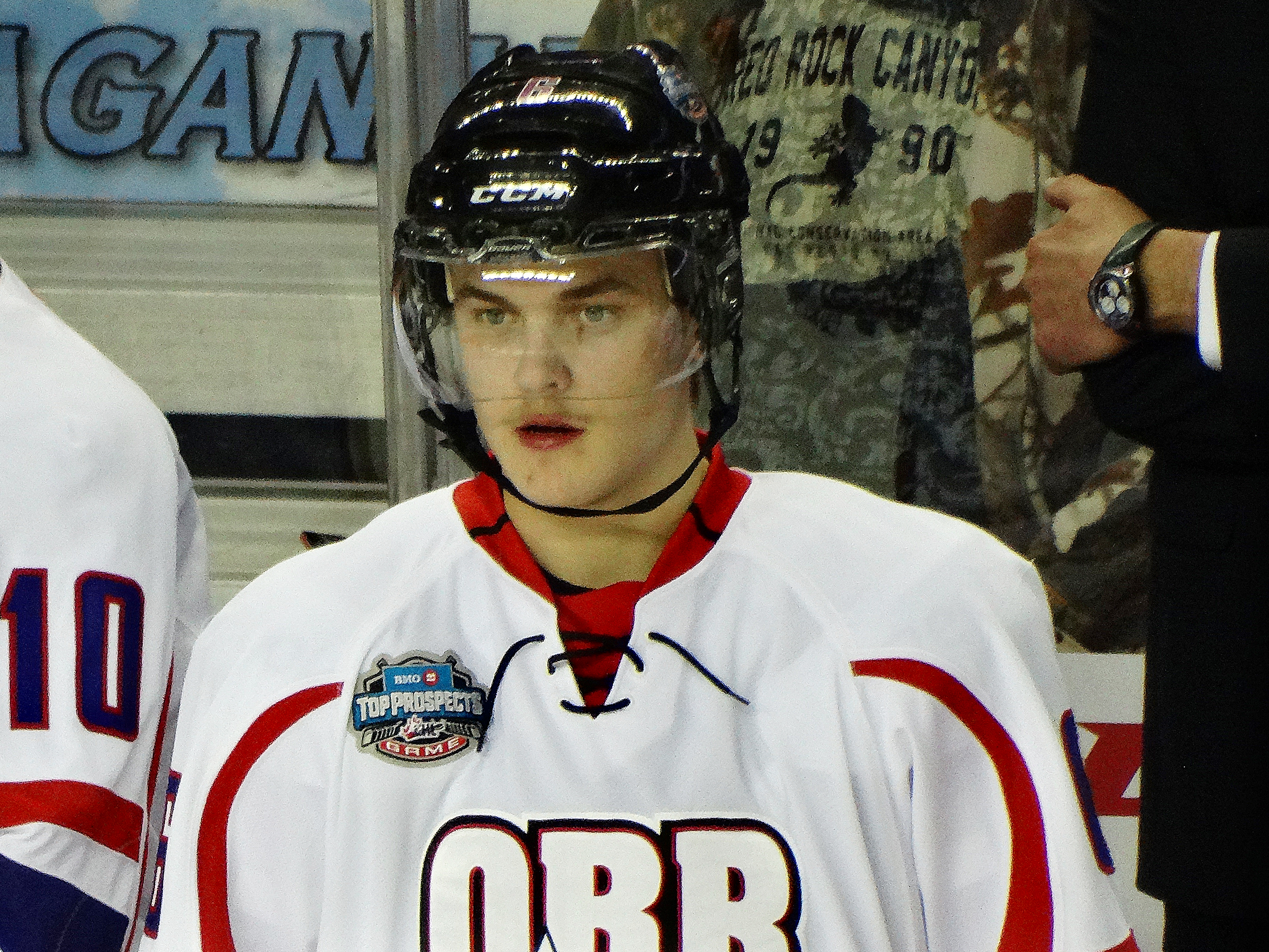 Julius Honka, Finnish ice hockey defenseman at the CHL / NHL Top Prospects Game